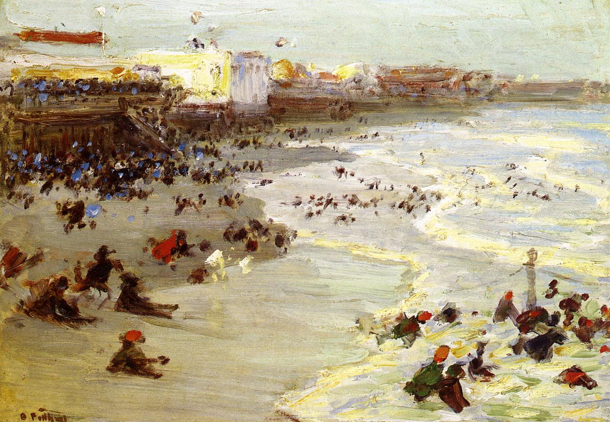 Oil painting of Coney Island